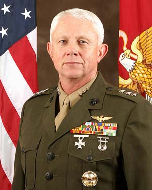 Lieutenant General John W. Bergman, United States Marine Corps